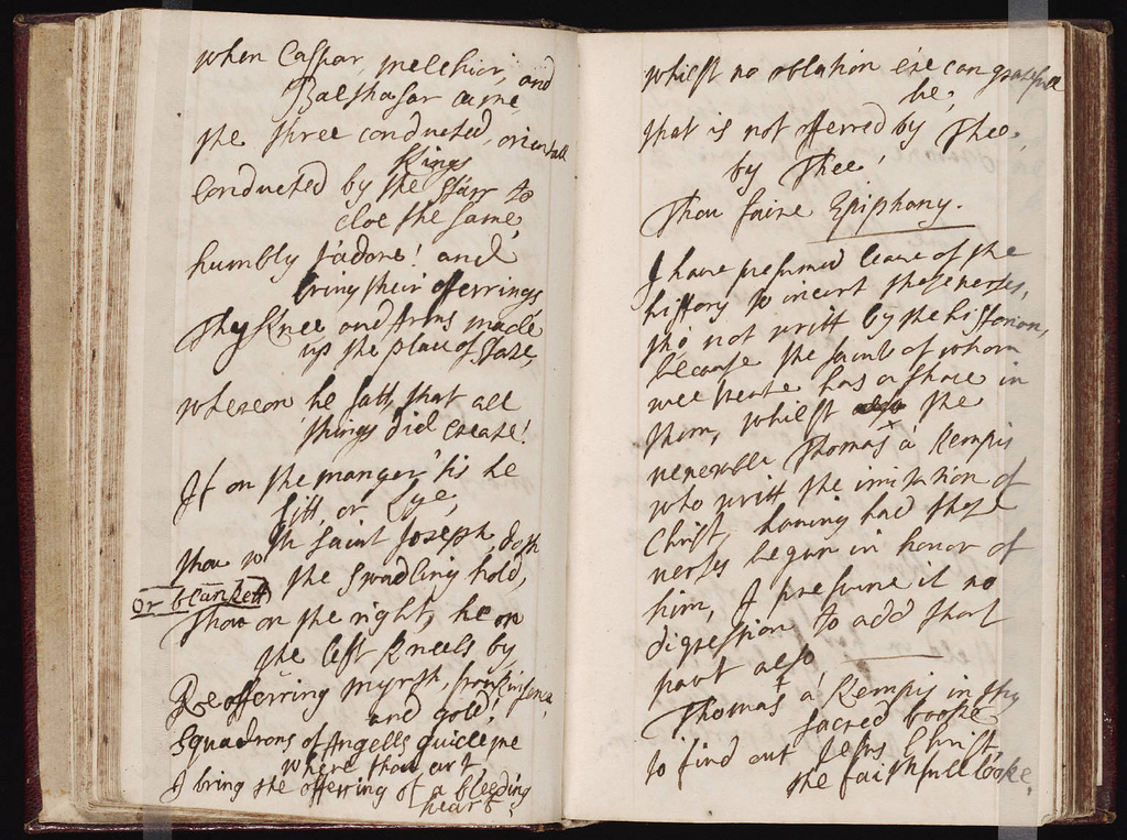 Page/Caption: Unnumbered 2 page spread Author/Creator: Date: 1693 Physical Description: 1 volume 17.5 x 11 cm. Subjects: Catholics--England Christian saints--Spain--Biography Counter-Reformation Devotional literature, English Mysticism Women--Religious life Genre/Form: Manuscripts Cite as: James Marshall and Marie Louise Osborn Collection, Beinecke Rare Book and Manuscript Library, Yale University Repository: Beinecke Rare Book & Manuscript Library, Yale University Bibliographic Record Number: 2033647 Call Number: Osborn b400 View our Record: Permalink